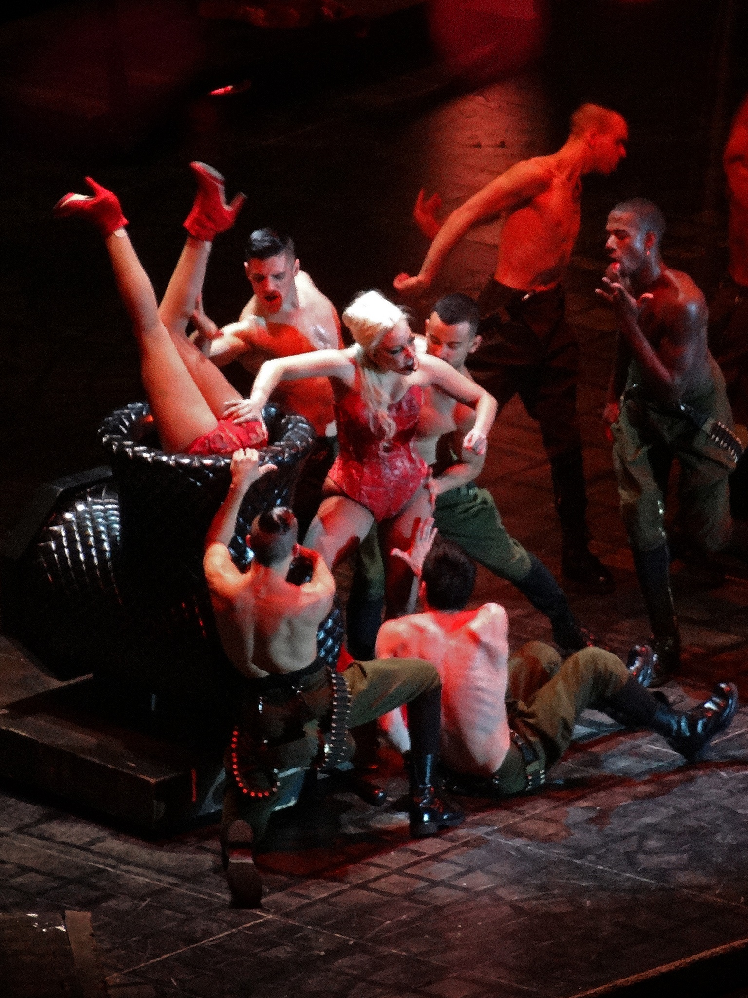 Lady Gaga performing "Poker Face" during a Manchester show of The Born This Way Ball Tour.